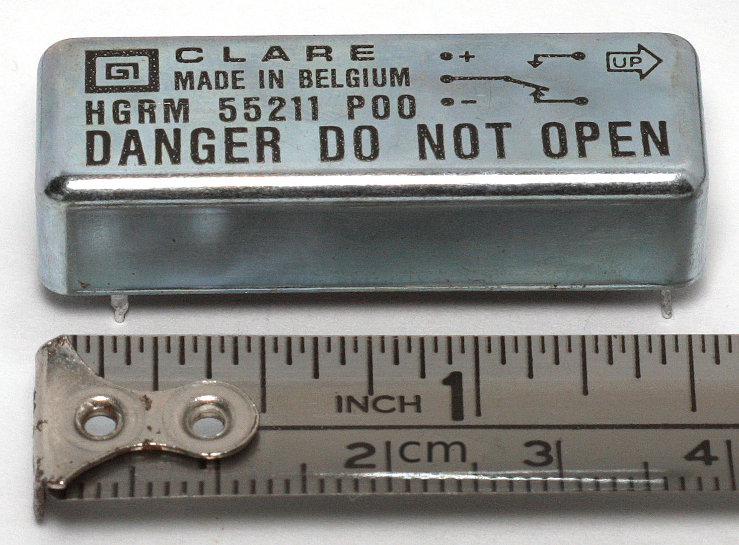 Clare HGRM-55211-P00 reed relay with mercury-wetted contacts. Specifications: Maximum switching power: 100 W Maximum switching current, AC or DC: 2.0 A Maximum switching voltage, AC or DC: 500 V Breakdown voltage, AC: 1000 V Coil resistance: 680 ohm Nominal coil voltage, DC: 12 V Maximum coil voltage, DC: 35 V Maximum pull-in current, DC: 7.5 mA Minimum drop-out current, DC: 1.7 mA Maximum pull-in voltage, DC: 5.7 V